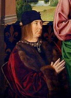 A portrait of Peter II, Regent of France, husband of Anne of Beaujeu, son-in-law of Louis XI of France and father and father-in-law of Suzanne and Charles III respectively.